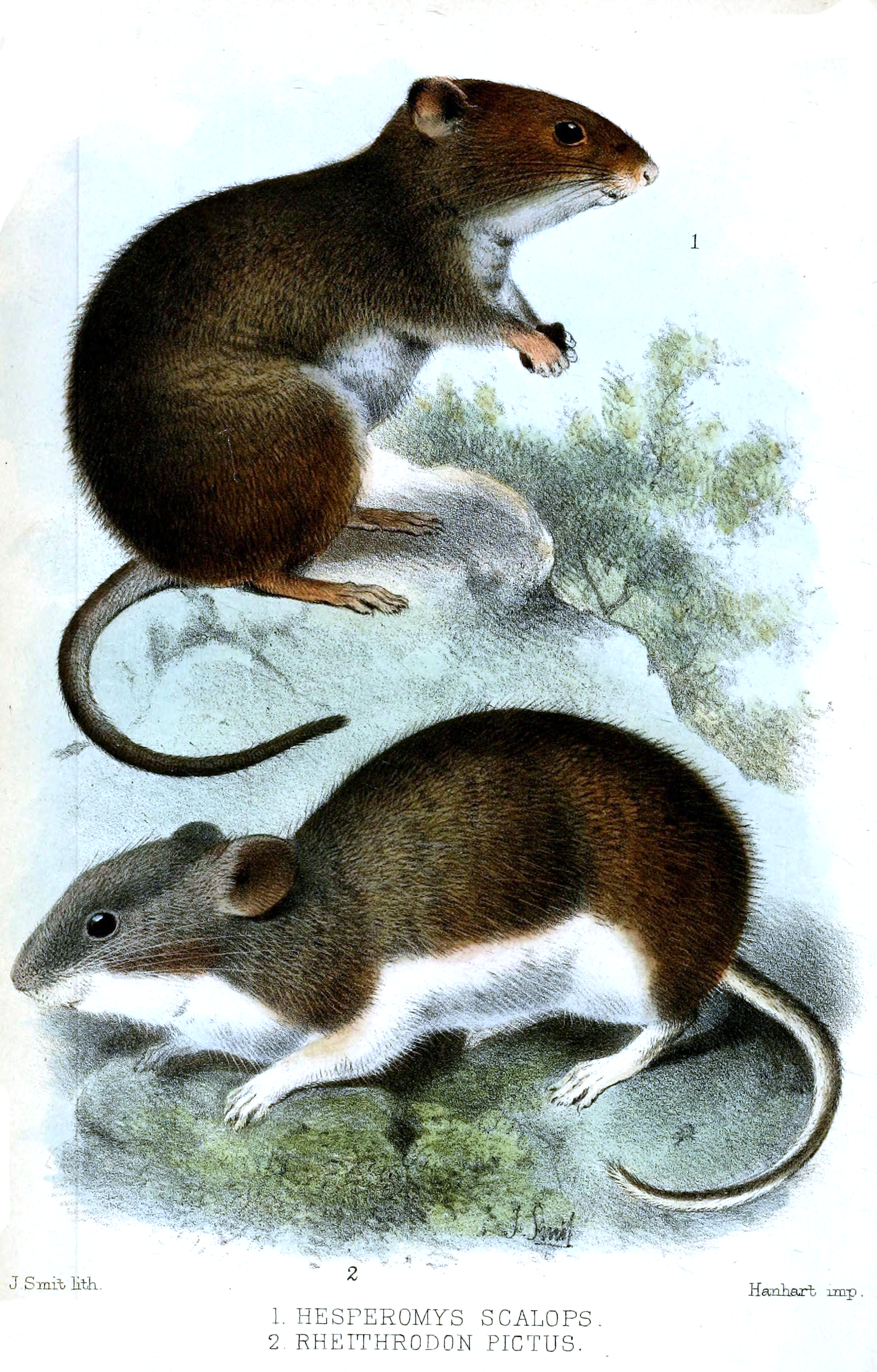 Hesperomys scalops = Chelemys megalonyx scalops & Rheithrodon pictus = Auliscomys pictus